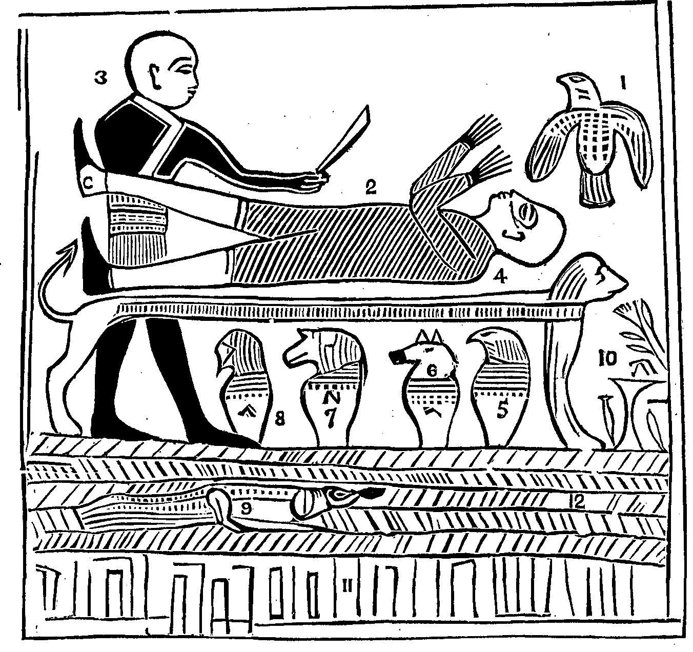 Facsimile 1 from the Book of Abraham, as printed in the 1851 Pearl of Great Price. A slighly different woodcut to the one seen in modern editions of the Pearl of Great Price.